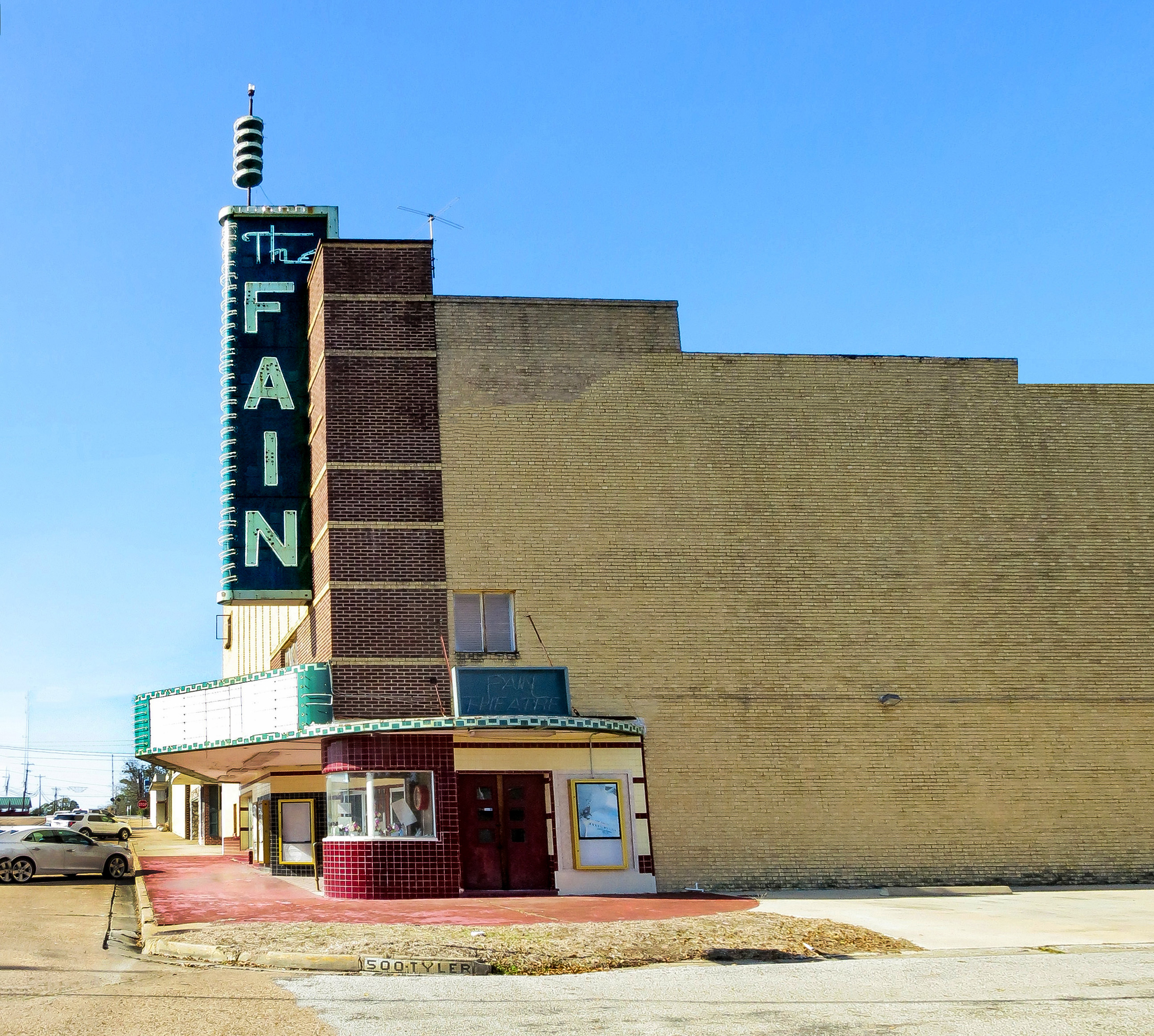 Starting before talkies, I think, picture shows were at the Texan theater. But when someone began building a new theater somewhere around 1950 Fain quickly built this place. Blacks were not allowed in the Texan, but this theater had a balcony and it was reserved for African Americans.